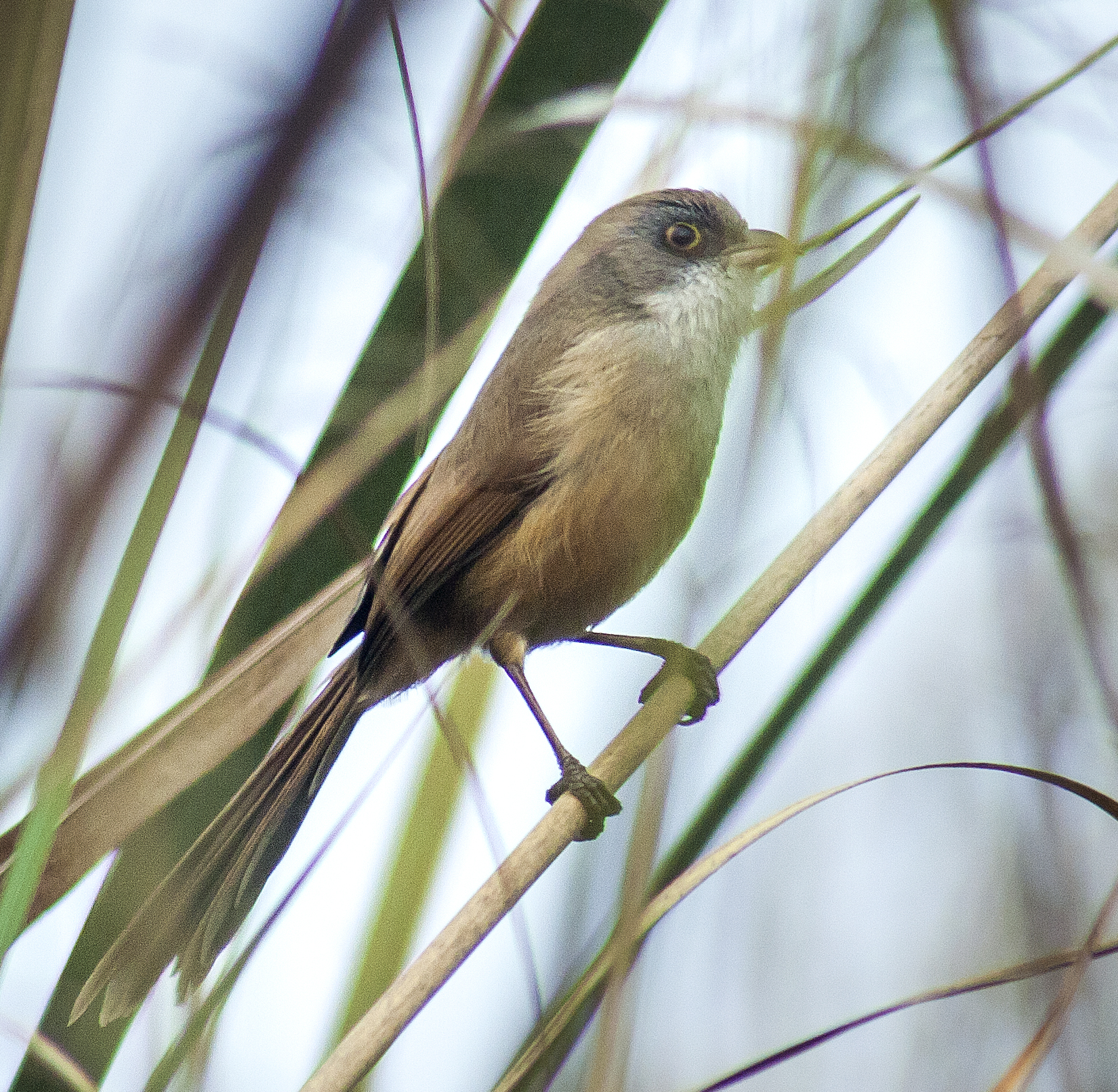 Sind Jerdon's Babbler